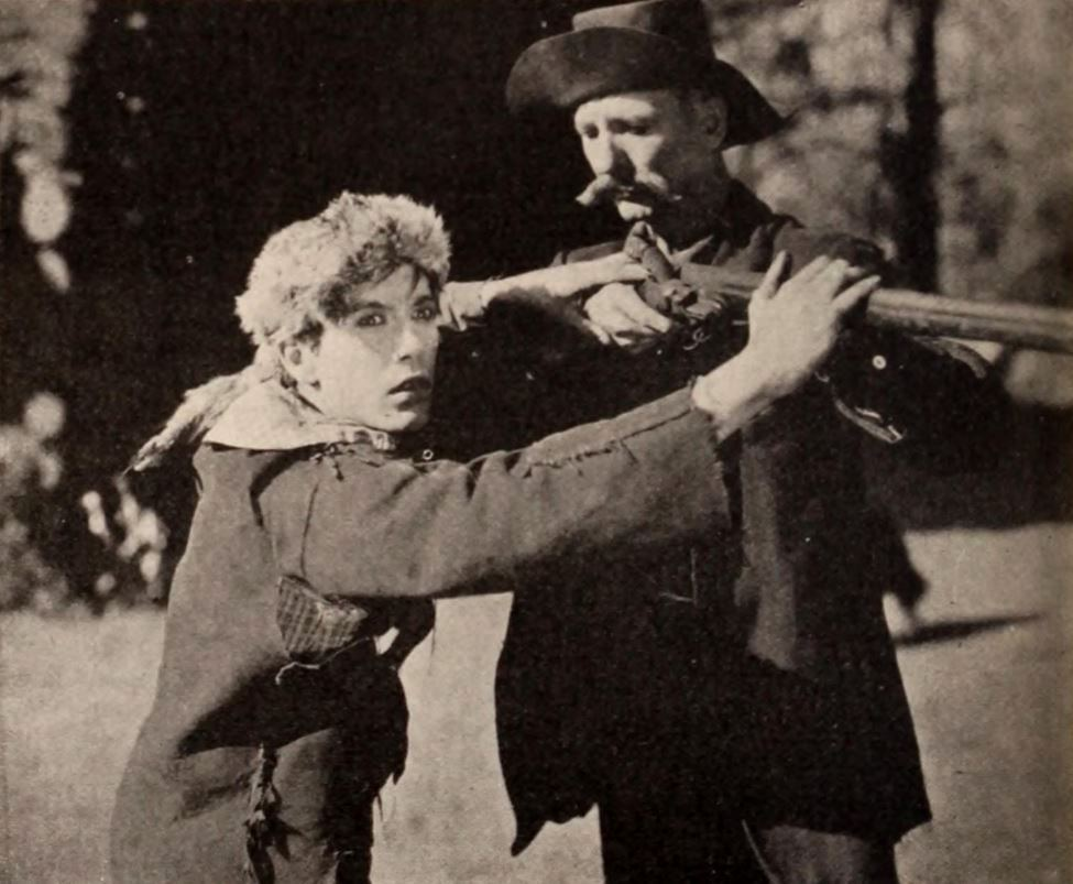 Still from the American film The Little Shepherd of Kingdom Come (1920) with Jack Pickford and an unidentified actor, on page 76 of the February 28, 1920 Exhibitors Herald.